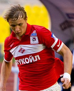 Roman Pavlyuchenko, Russian footballer.